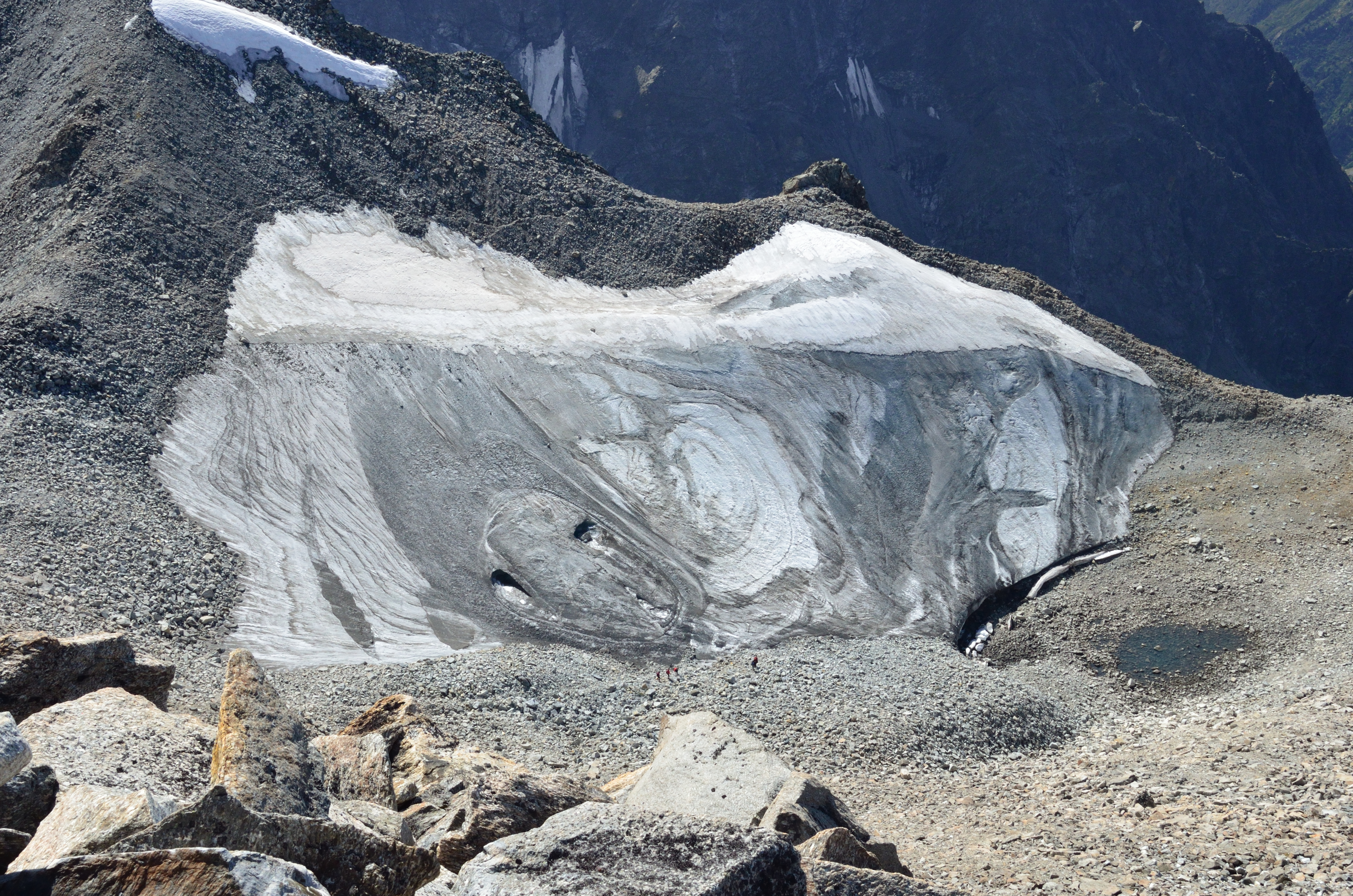 Dead ice south of Hohe Geige in the Ötztal Alps, Tyrol.